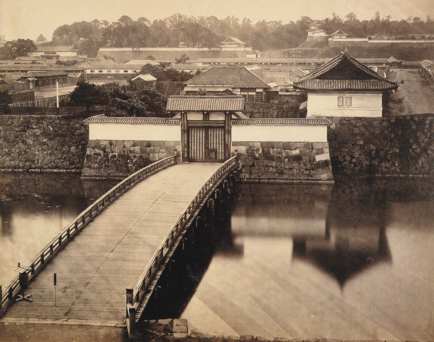 Babasaki-mon = a Gate of Edo Castle. It was put down about 1904